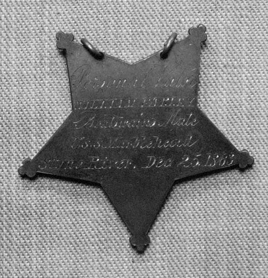 Reverse of a Medal of Honor awarded to Boatswain's Mate William Farley, United States Navy, of USS Marblehead for inspiring his men to keep a rapid and effective fire during an engagement with a Confederate battery on John's Island, Stono River, South Carolina, 25 December 1863.